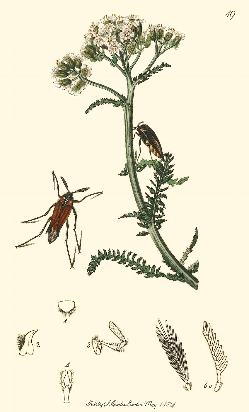 An illustration from British Entomology by John Curtis. Metoecus paradoxus